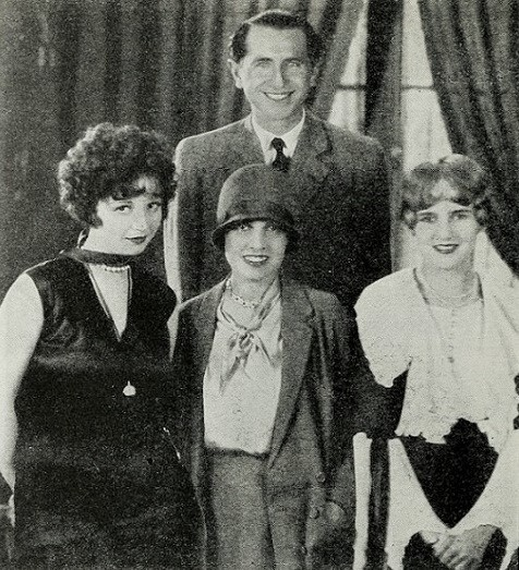 Malcom St. Clair, Alice White, Anita Loos e Ruth Taylor